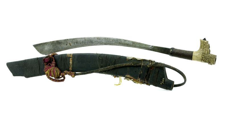 Sword with hilt of deerhorn and sheath